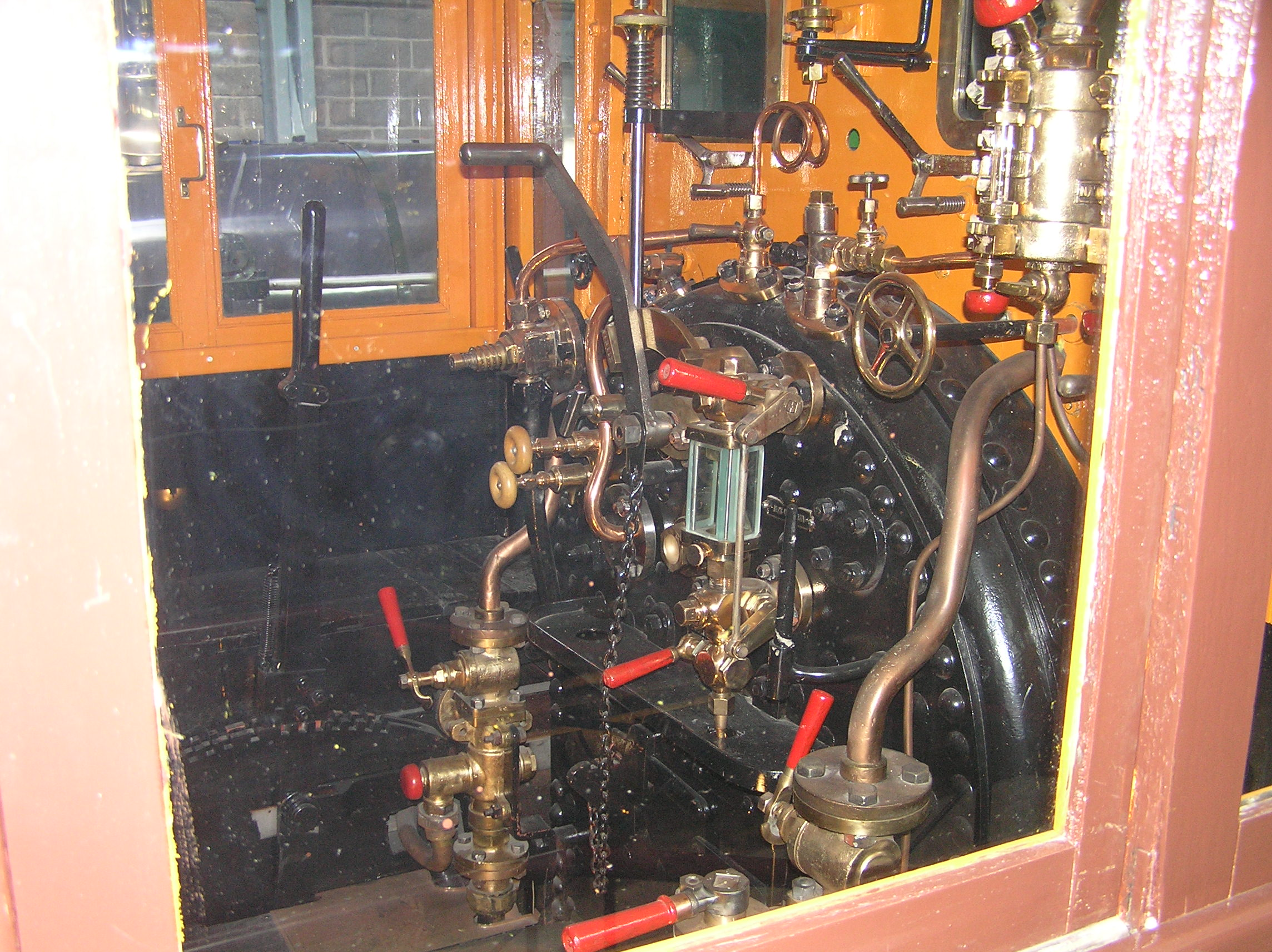 The Cab interior of VR Class C1 steam locomotive no. 21 (the Neilson British "Neilson and Company" locomotive) at the Finnish Railway Museum in Hyvinkää, Finland.